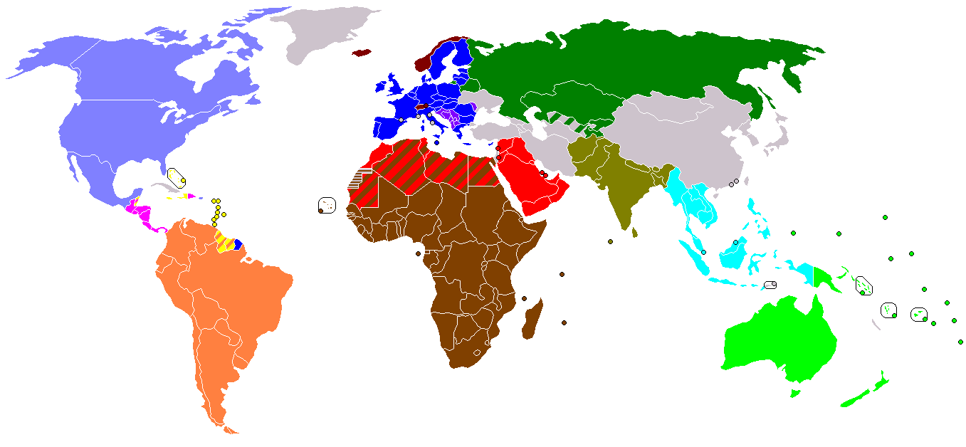 Regional trade blocs: NAFTA SICA Caricom UNRASUL EU Arab League AU SAARC EurAsEC CEFTA EFTA ASEAN PIF